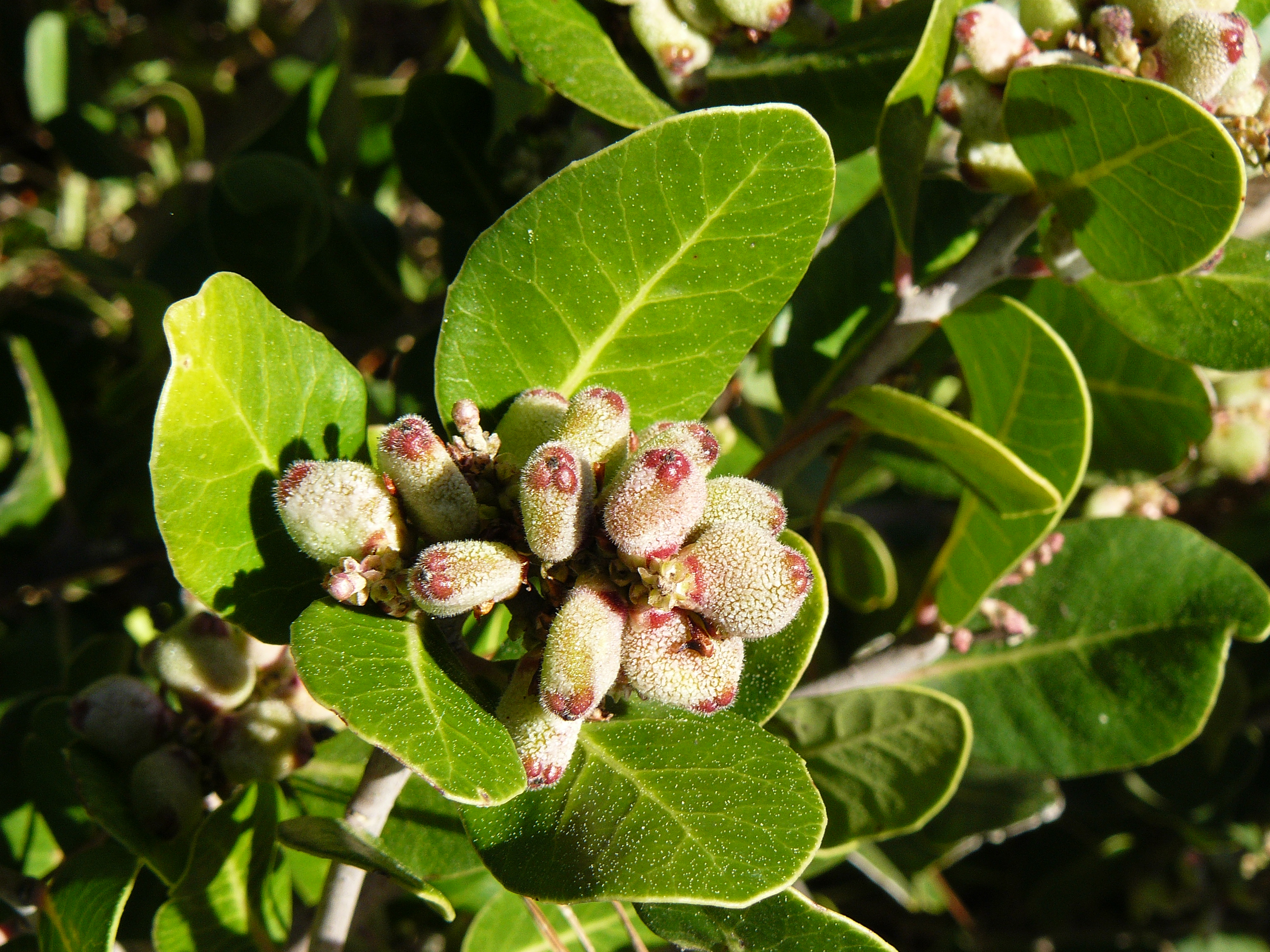 Rhus integrifolia — Lemonade Berry; berries. At Morro Bay Marina Peninsula, in Morro Bay State Park, San Luis Obispo County, California. The Chuilla peoples traditionally ate the berries fresh or dried or made them into mush.